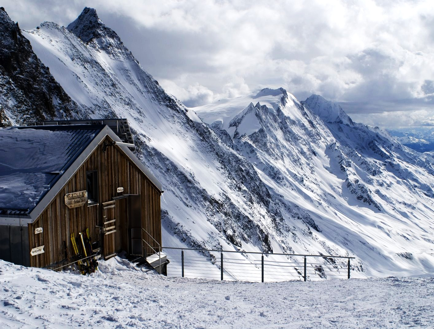 Hollandiahut, Lötschenlücke, view to the south-south-west, from left to right: Schinhorn (3797 m), Lonzahörner (3560 m), Lötschentaler Breithorn (3785m), Bietschhorn (3934 m)